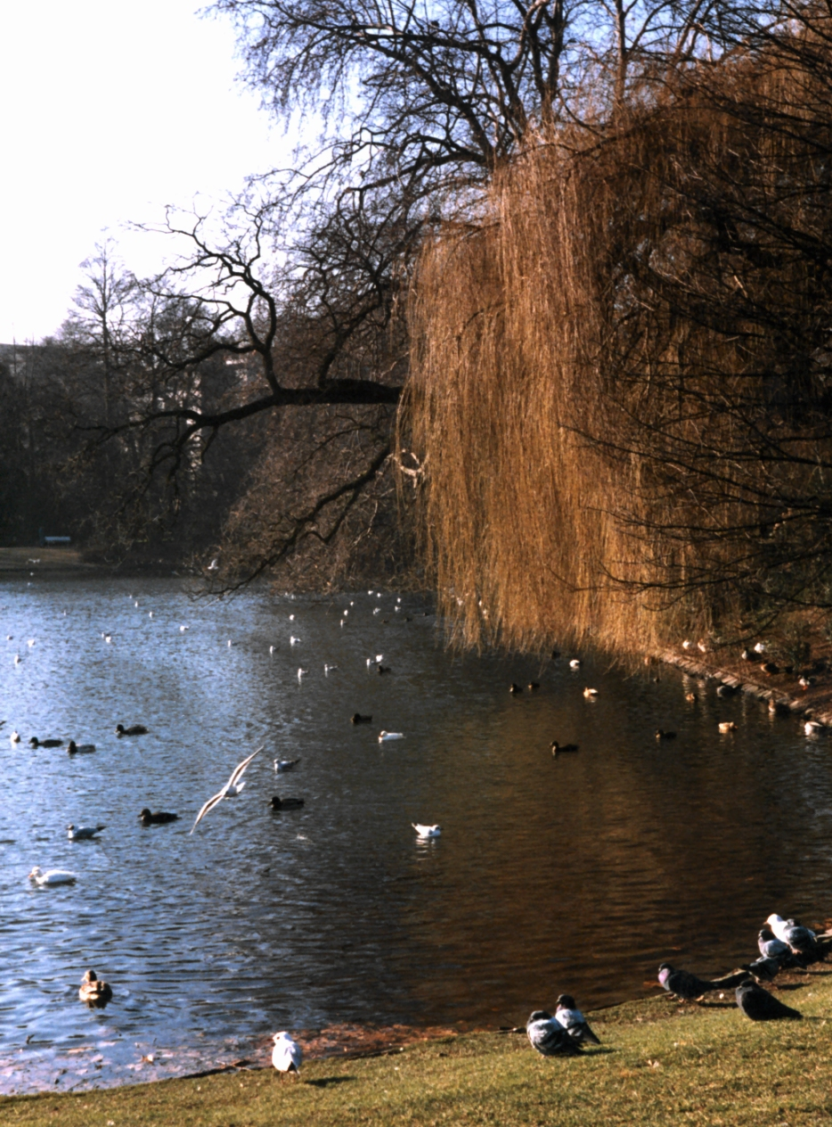 Landskrone at the 'Hofgarten' in Düsseldorf